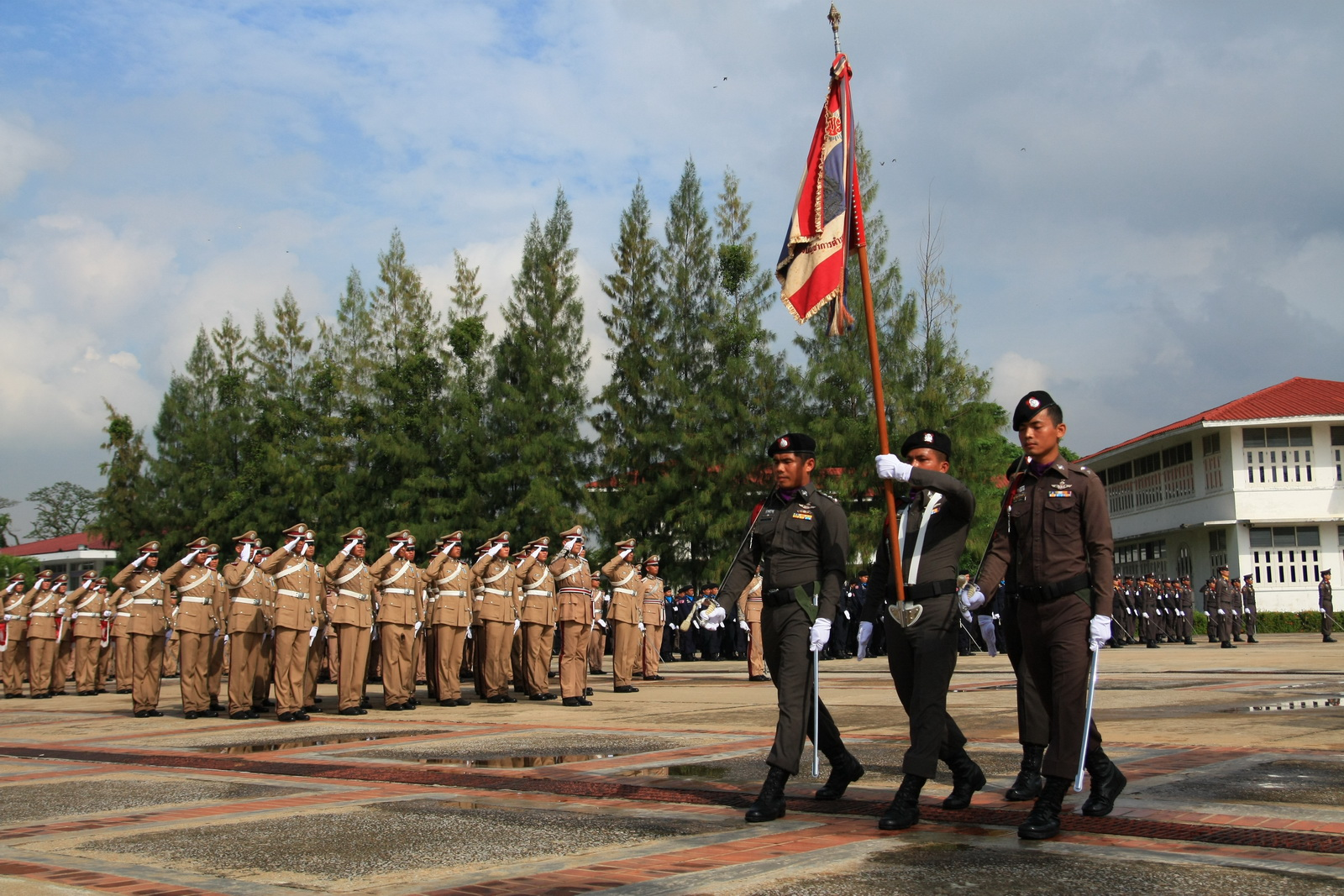 ธงชัยเฉลิมพล ประจำหน่วยตำรวจ(Police Colours)7